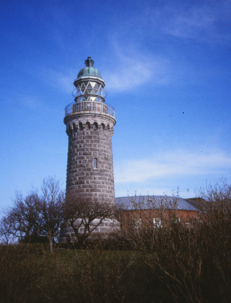 The Skjoldnæs Lighthouse on the danish island Ærø. April 2001